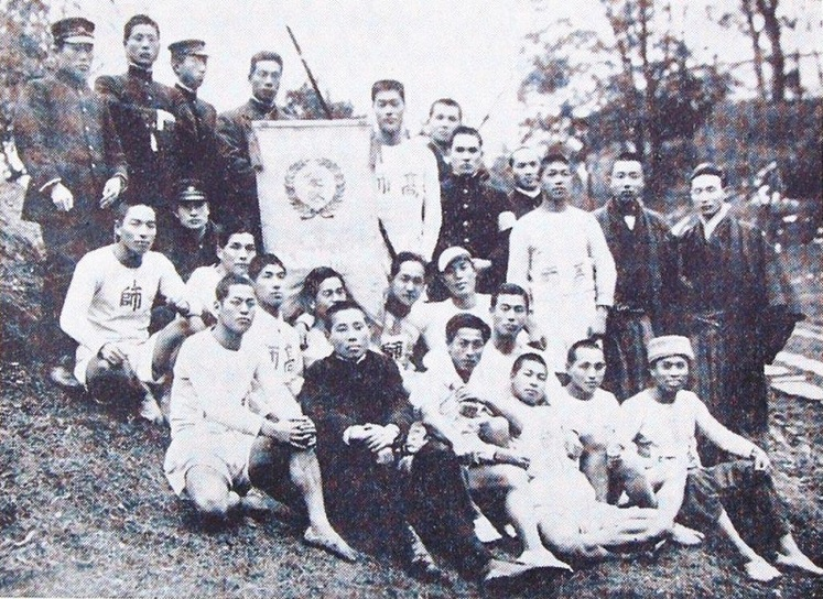 They are winners of the 1st Hakone Ekiden. This team is Tokyo Higher Normal School.